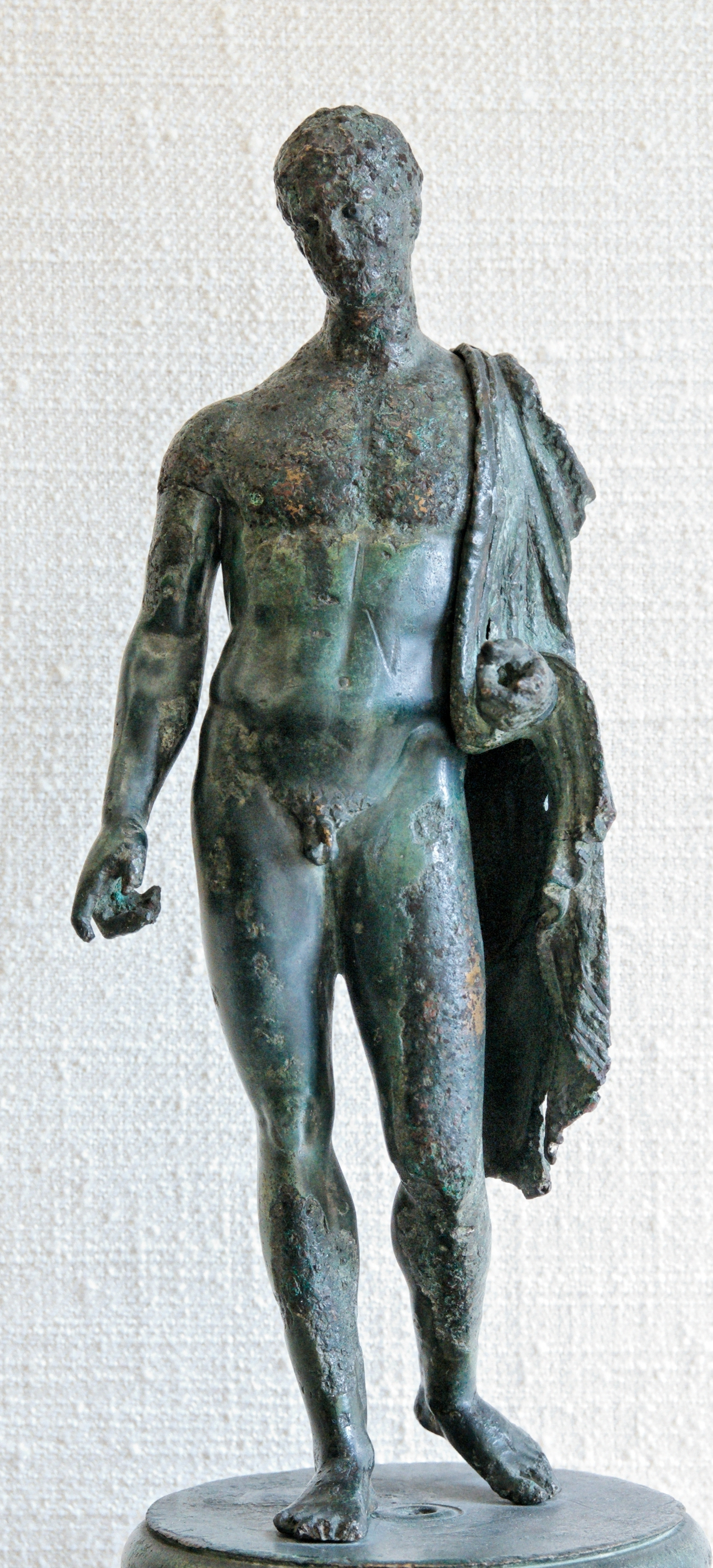 Naked youth with a chlamys, perhaps a Dioscurus or Mercury. Bronze, Roman artwork, 2nd century AD. From the archaeological find of Sous-Parsat (Auvergne, France), 1824.